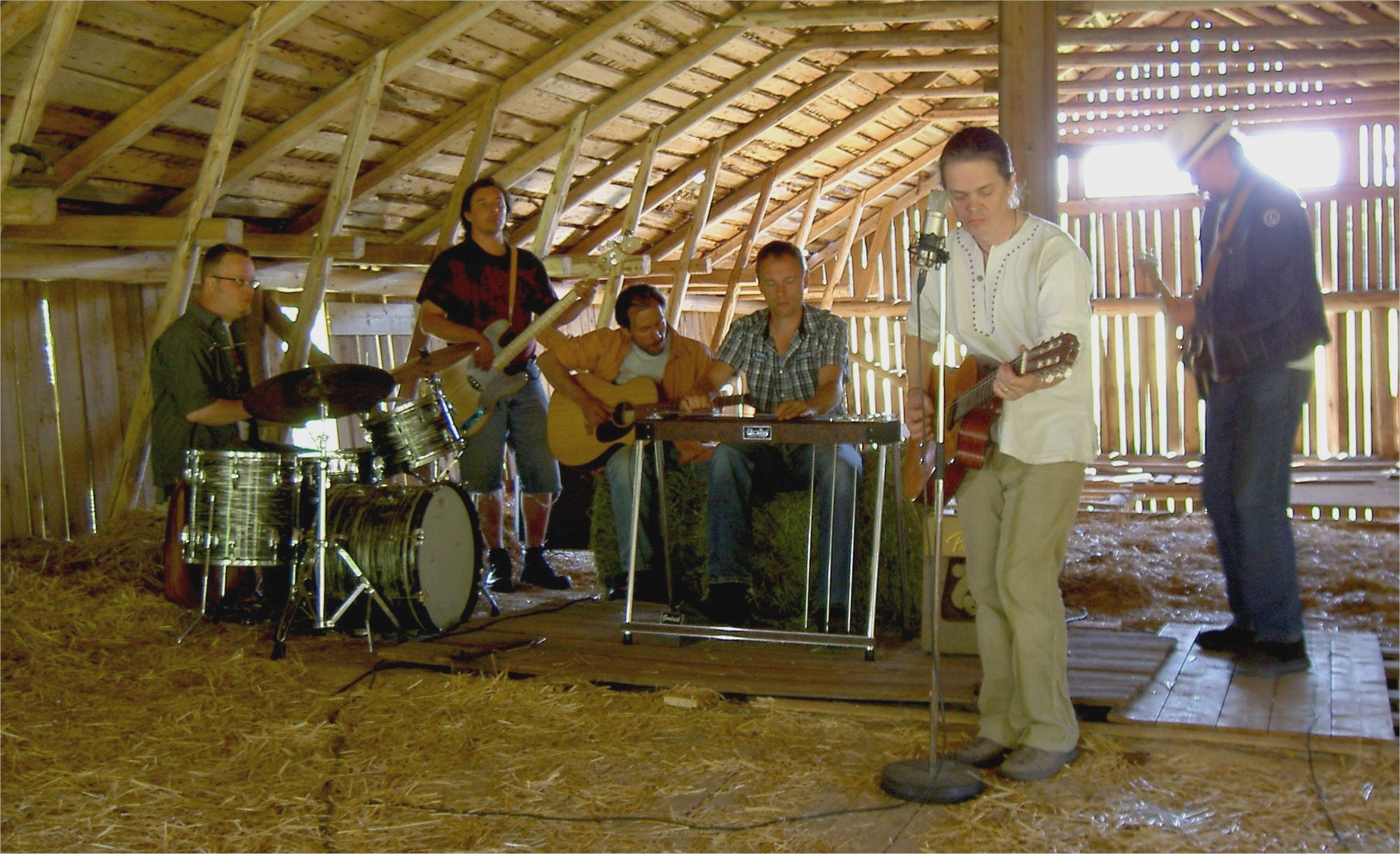 Band in a barn.